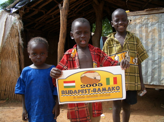 Children in the town of Mahina, Mali are welcoming members of Budapest-Bamako humaniatrian caravan.